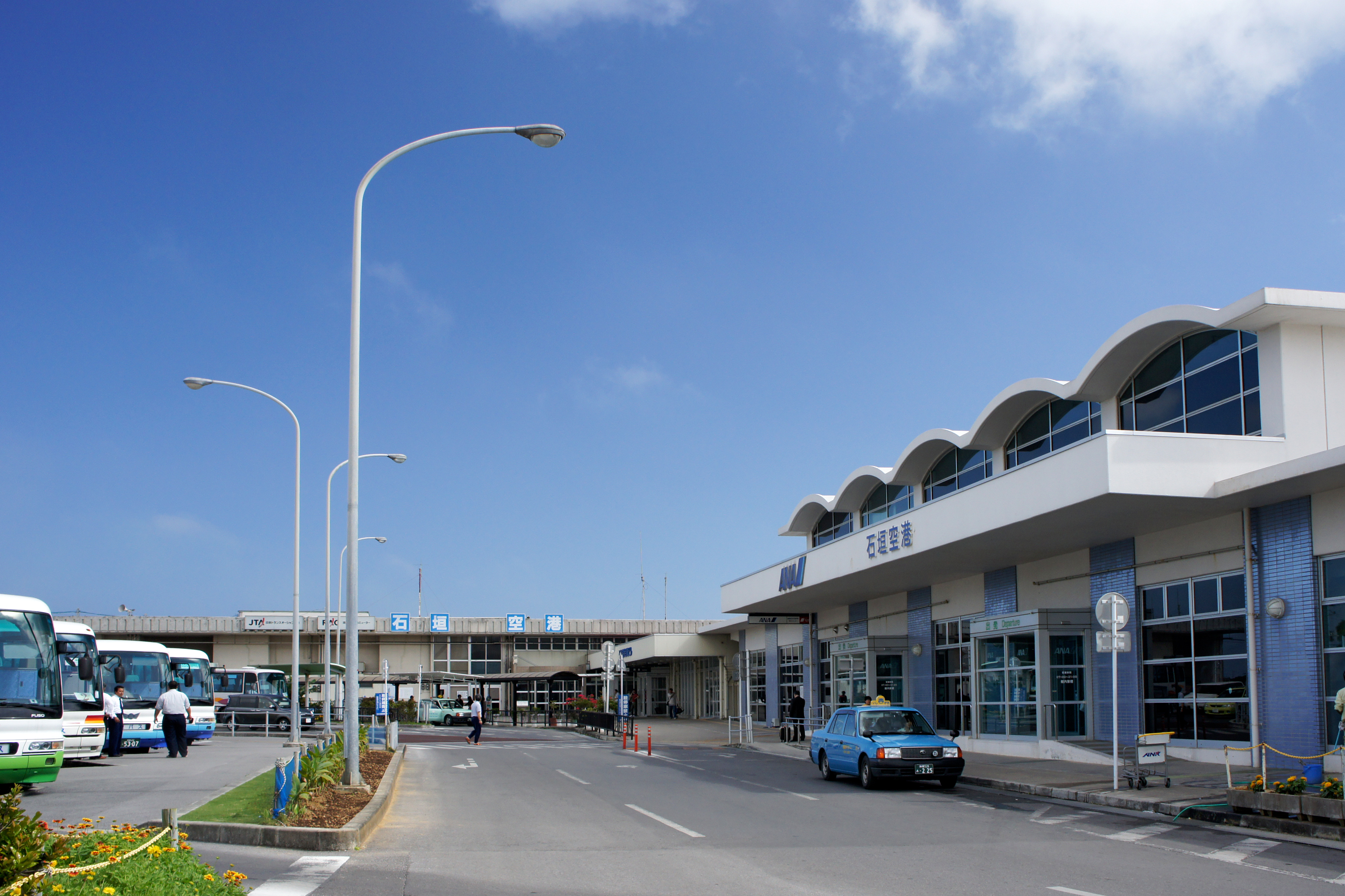 Ishigaki Airport in Ishigaki Island, Ishigaki City, Okinawa Prefecture, Japan.